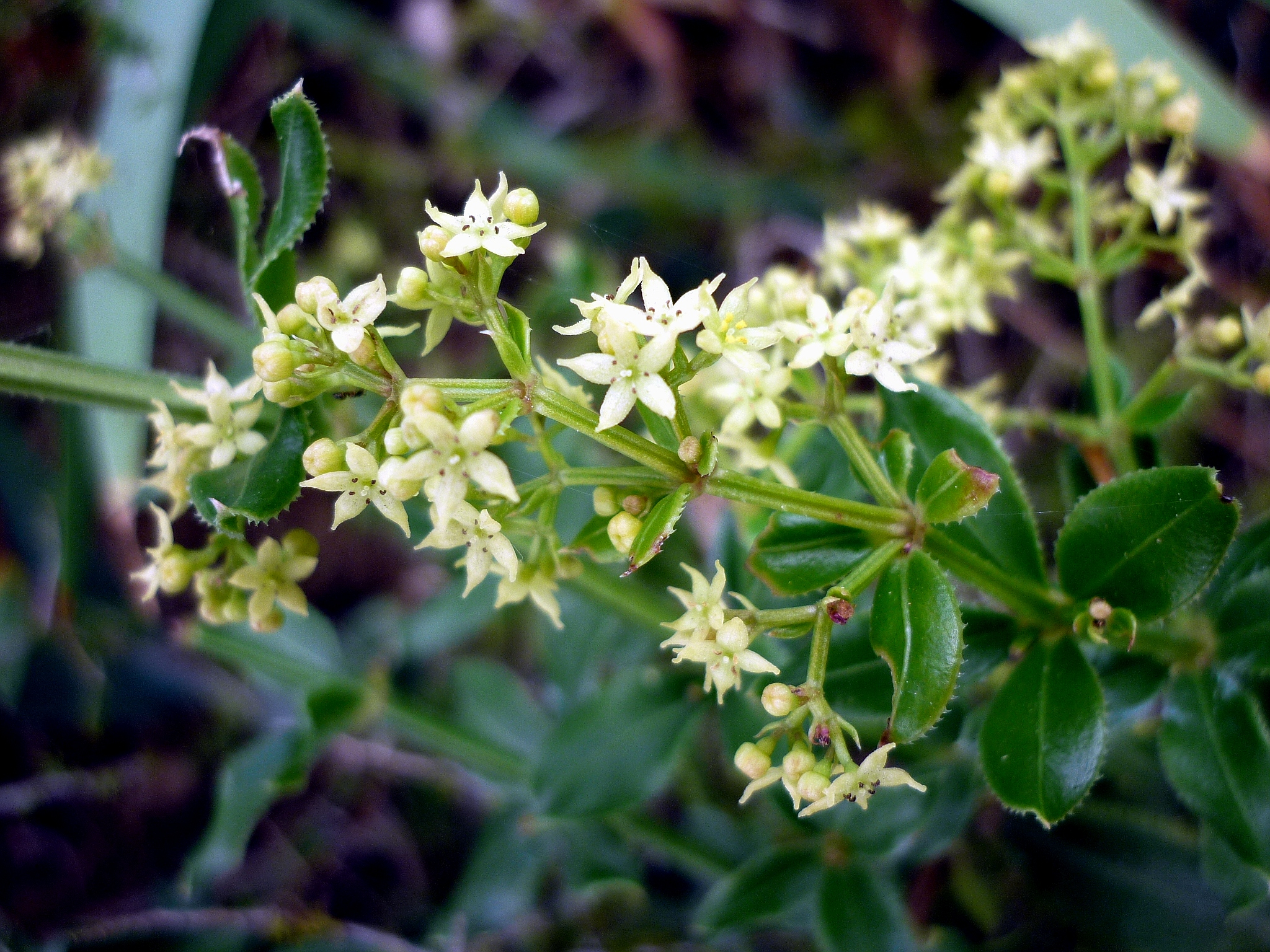 Rubia peregrina. In Torà (Segarra-Catalunya). To 590 m. altitude